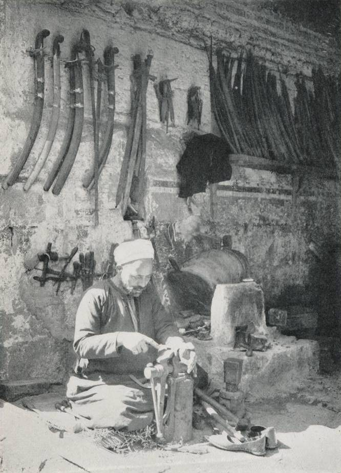 “A SWORD-MAKER”A man sitting on the ground with a large display of swords on the wall behind him.